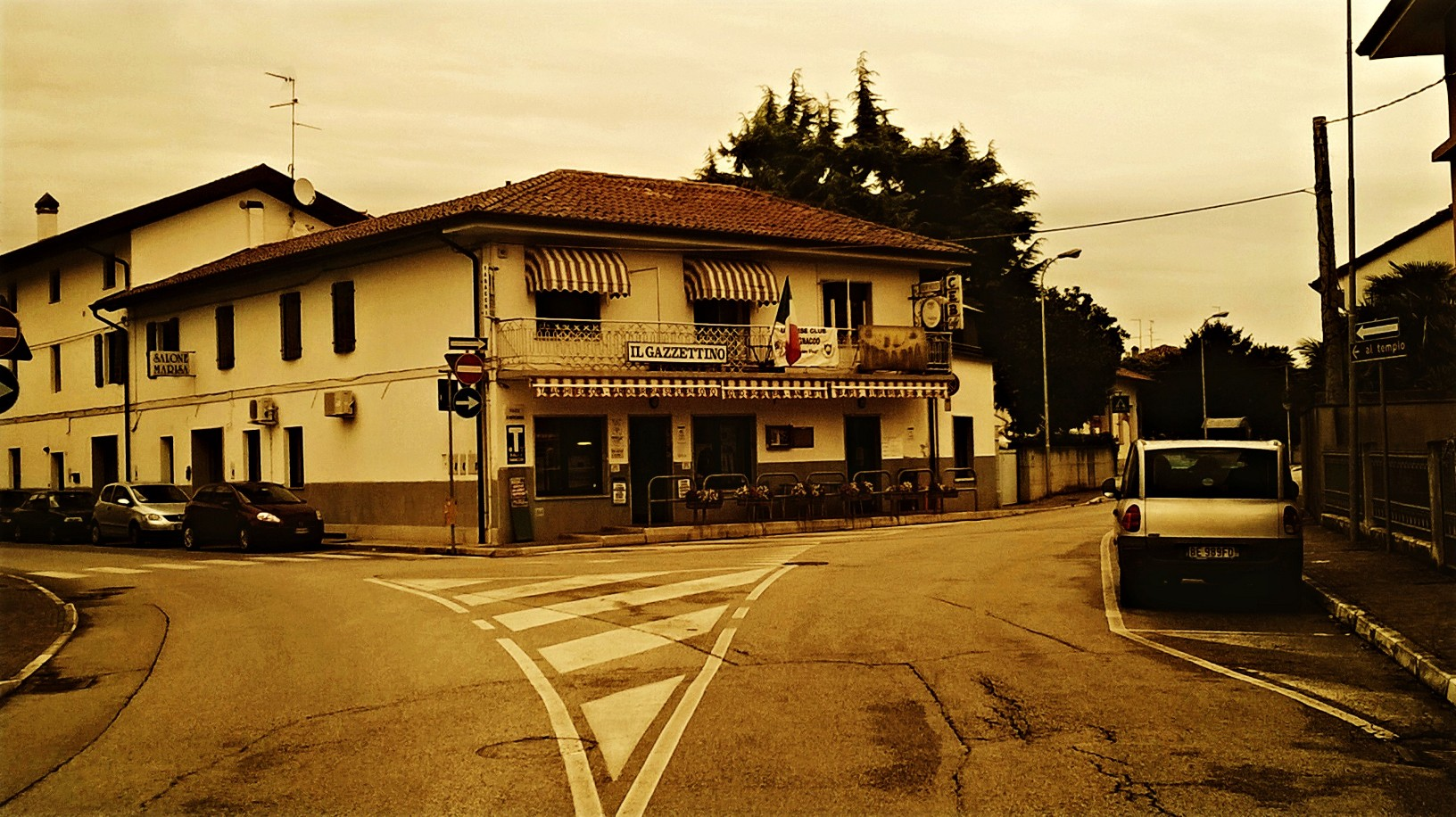 Piazza IV Novembre, Cargnacco